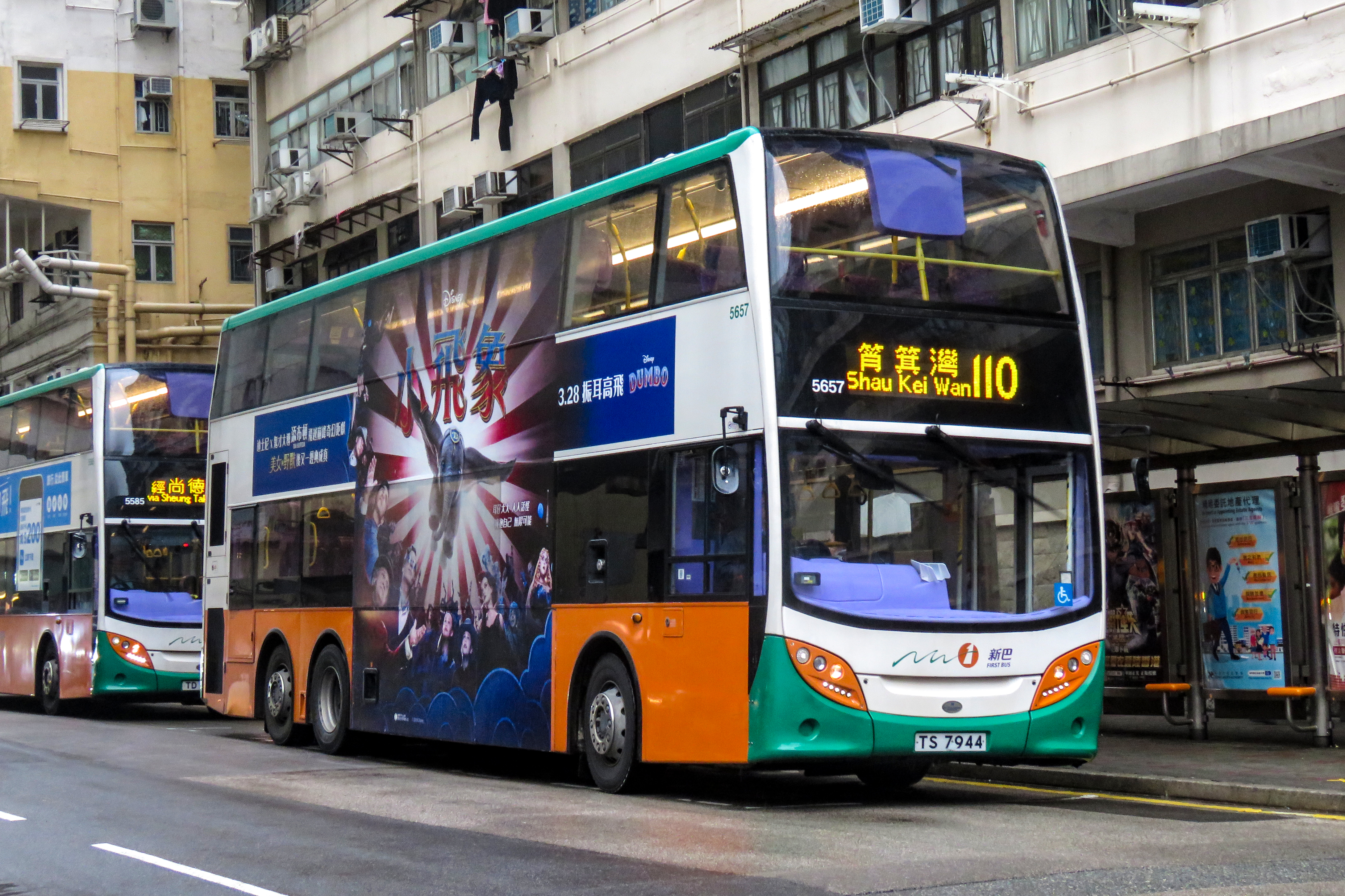 Promoting the Tim Burton film Dumbo. Note the Cantonese translation of Tim Burton...